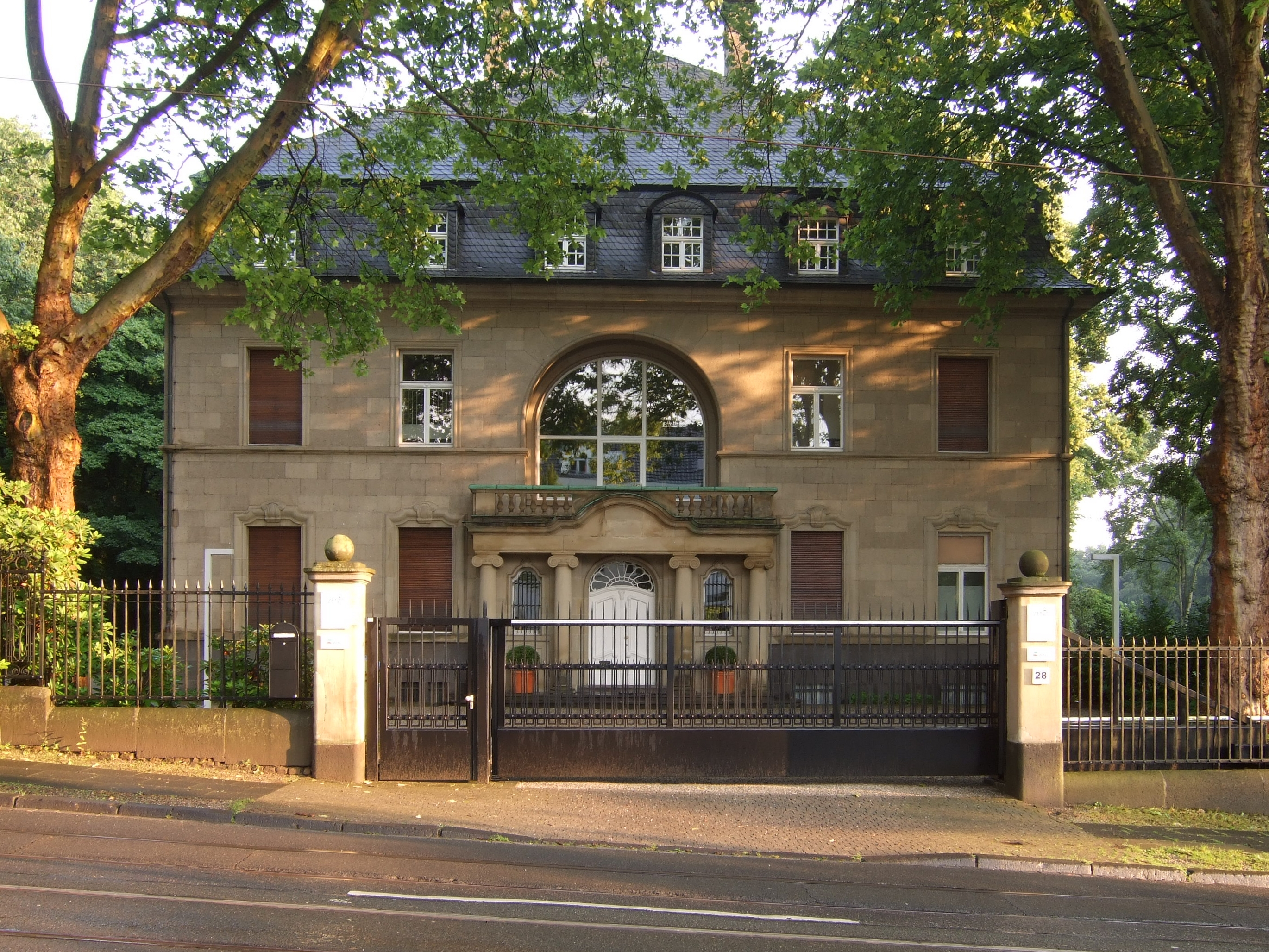 Mansion house Urge at the Mülheimer Kahlenberg, nowadays ZENIT.